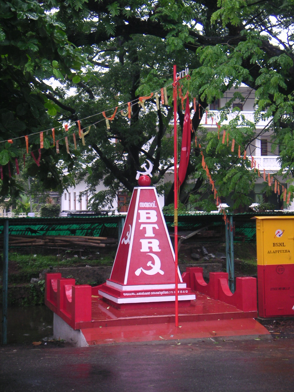 B.T. Ranadive memorial in Allepey, Kerala. photo: Soman